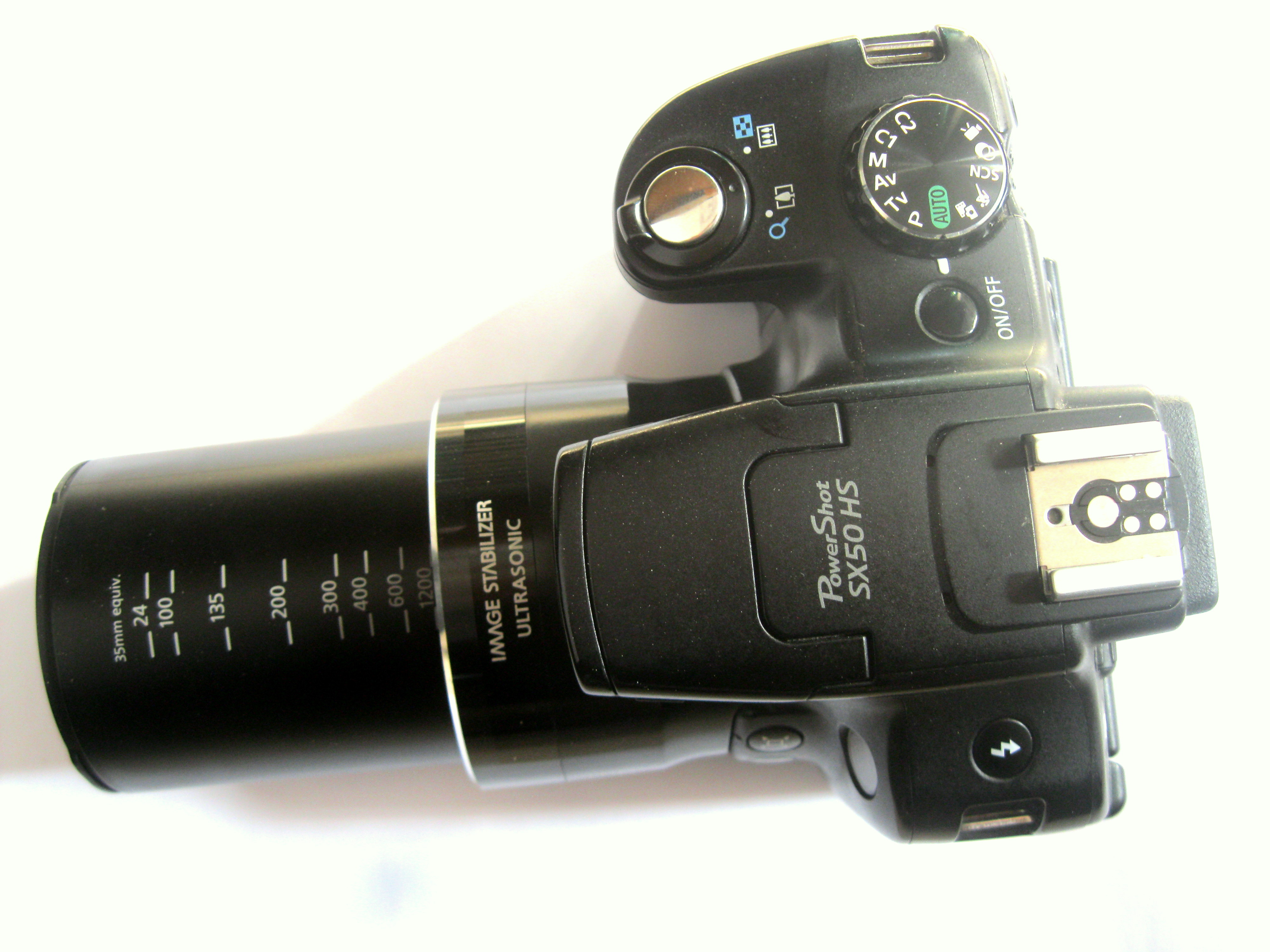 Canon PowerShot sx50 HS